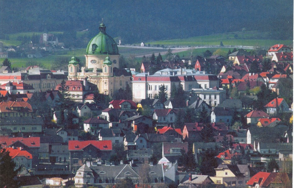 Berndorf Town, Lower Austria, Austria. St. Margareta parish church. In the far background the village of Grillenberg.